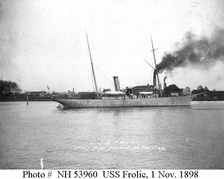 United States Navy armed yacht USS Frolic (1892) off the Norfolk Navy Yard, Portsmouth, Virginia